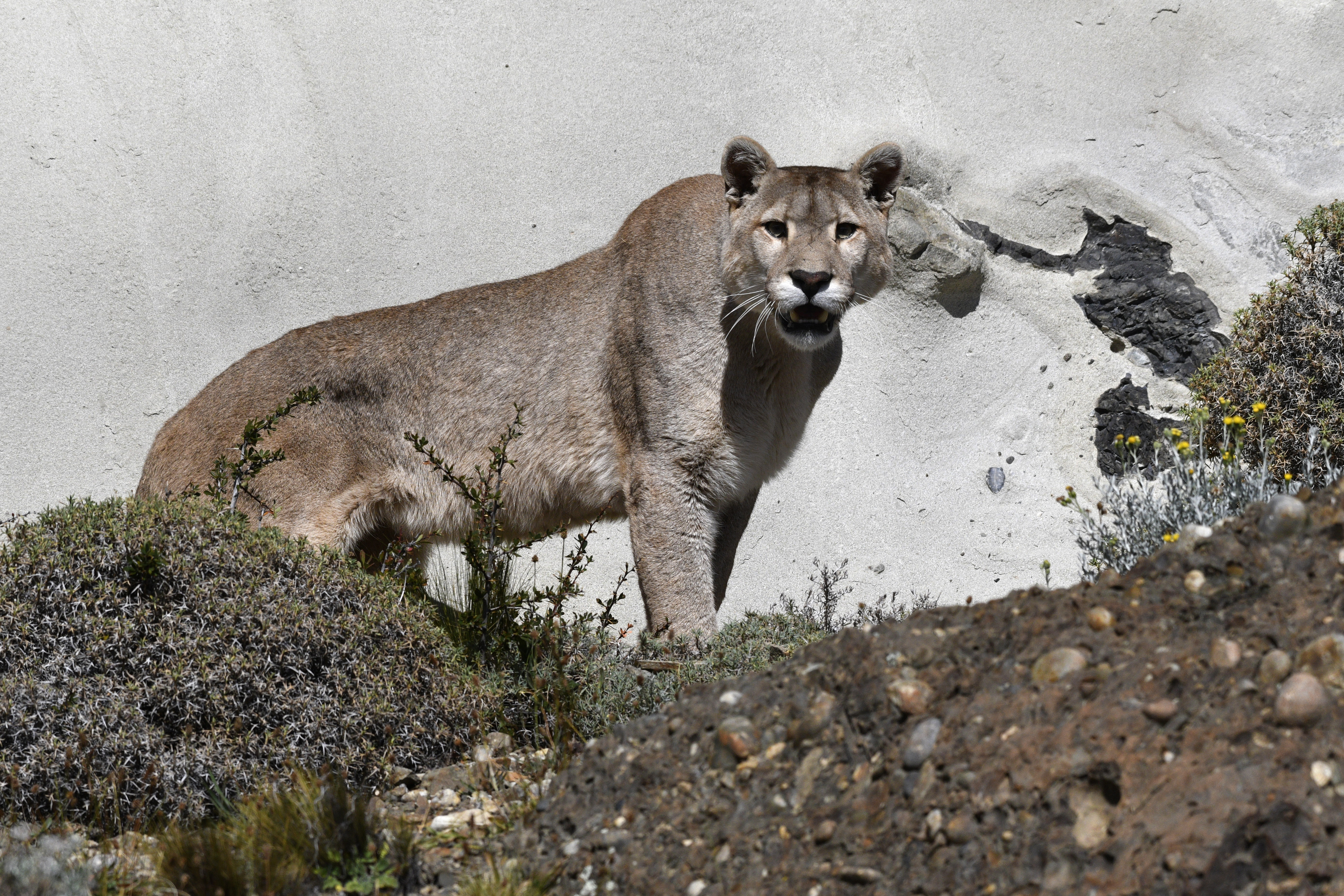 "Don´t come any closer". The 80-90 kg heavy puma male shows clearly where his limit is. He rules here on the windy Torres del Paine National Park in Chilean Patagonia. Photo: Jan Fleischmann This is an image of the Biosphere Reserve or a Geopark: Lake Vänern Archipelago